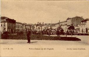 Campo 24 de Agosto, Porto, Portugal